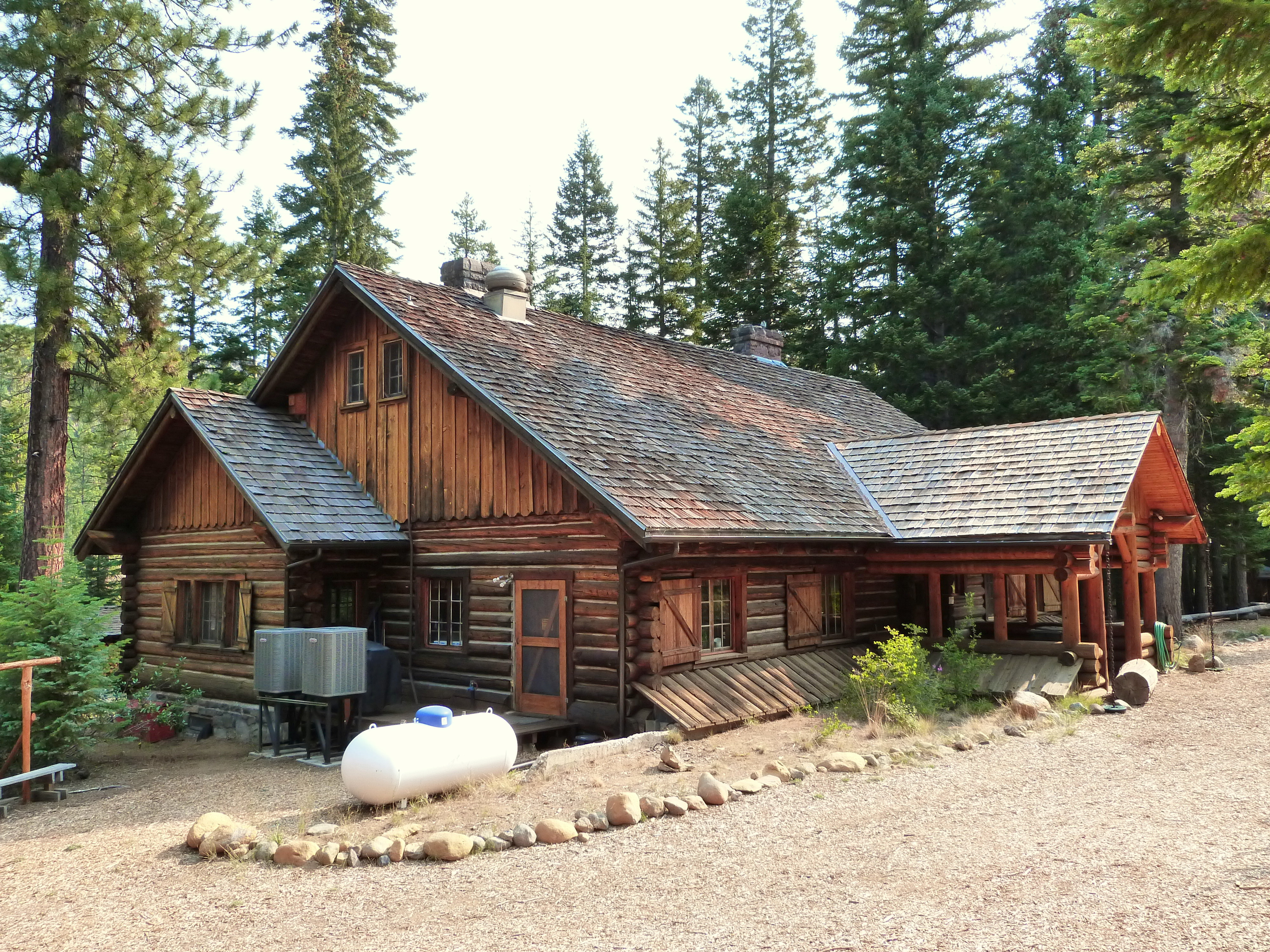 The historic Bend Skyliners Lodge (built 1936), located on Skyliners Road in Deschutes National Forest, near Bend, Oregon, United States, is listed on the US National Register of Historic Places. As of the photo date, the lodge is in use as a Conservation Education Center by the High Desert Education Service District.